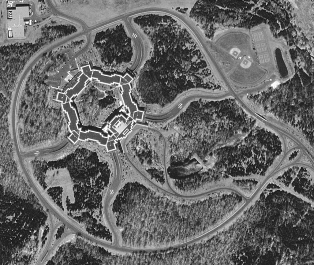 Aerial image of Merck's corporate headquarters in Whitehouse Station, New Jersey